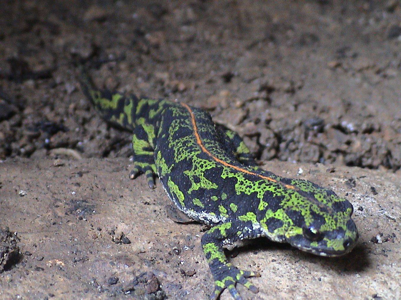 Triturus marmoratus in the north of the Dordogne, France